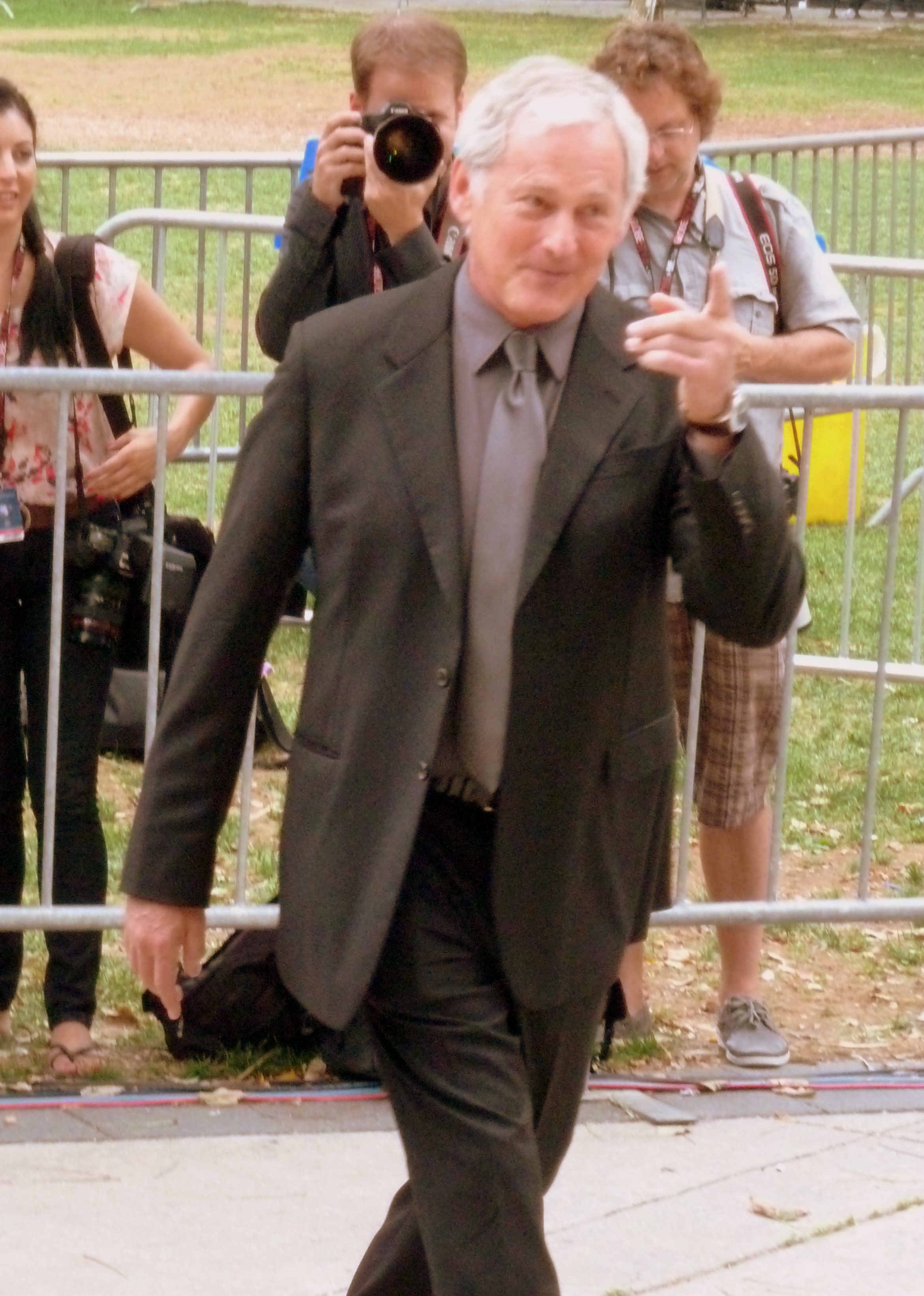 Victor Garber at the premiere of Argo, Toronto Film Festival 2012